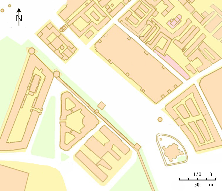 Map of REd Square in Moscow, derived from File:Moskova-he.jpg